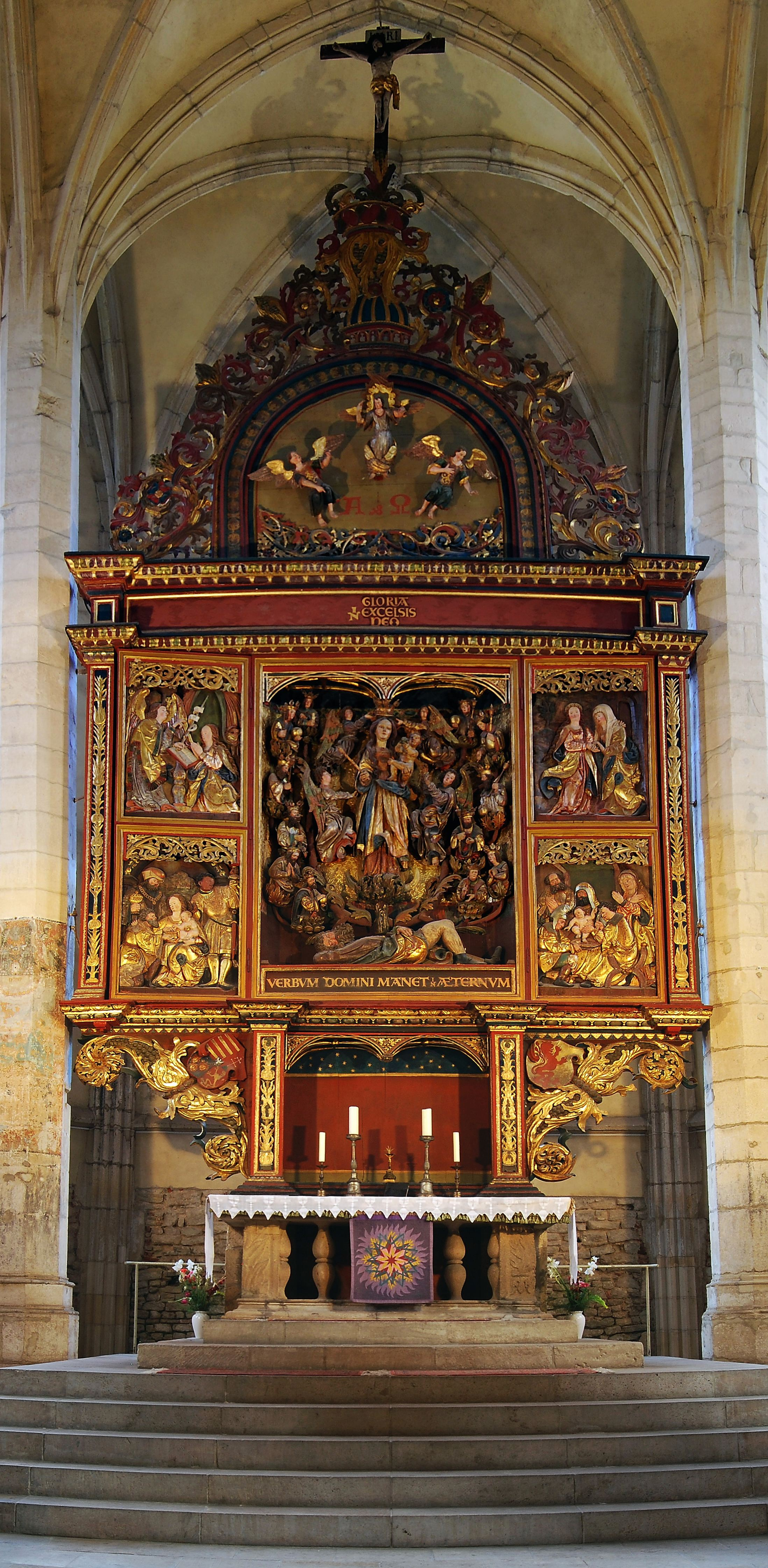 Altar of the evangelical church Sebes Alba,Mühlbach,Szászsebes Altarul bisericii evanghelice Sebes